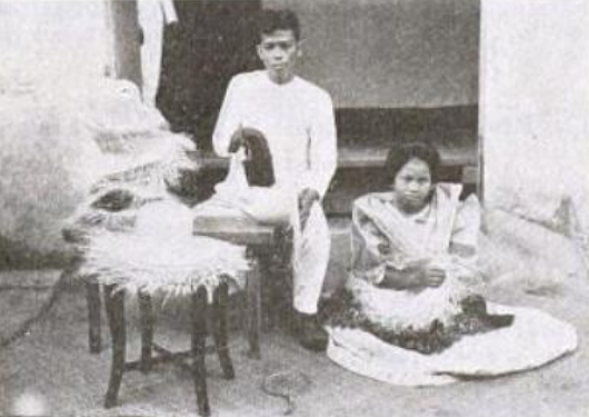 A Filipino woman making a buntal hat and a native press man shaping a hat for market with a charcoal iron